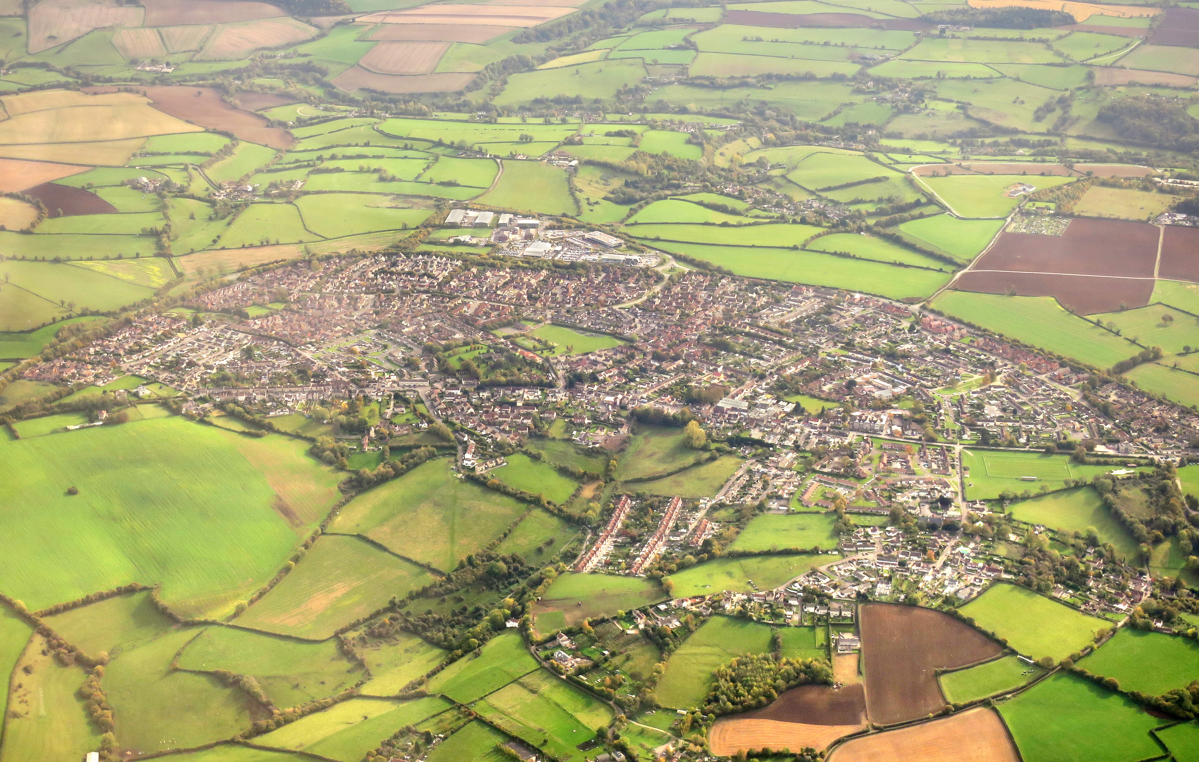 An aerial view of Peasedown St John, near Bath in the UK.